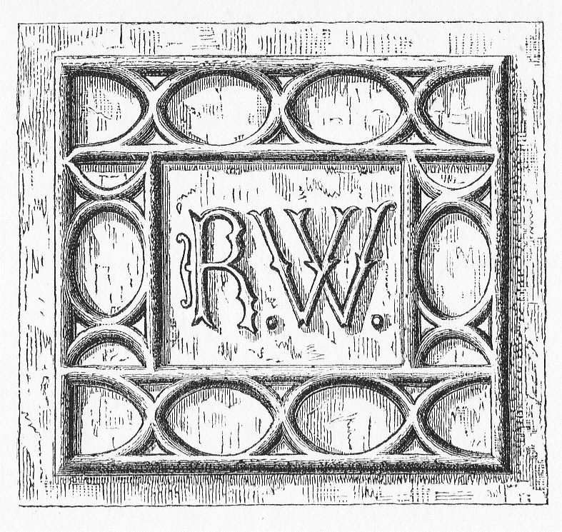 Monogram of Sir Richard Weston(d.1542), moulded terracotta, facade of Sutton Place, Guildford, 1520's.